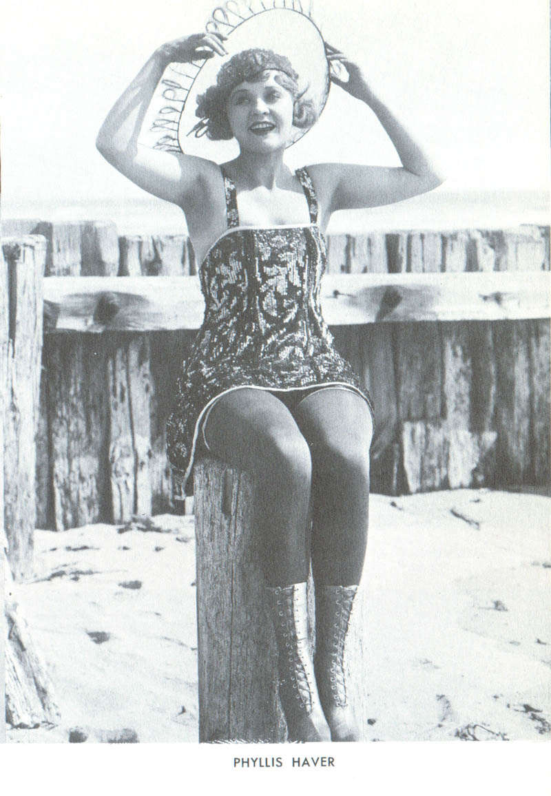 Phyllis Haver was a Mack Sennett's bathing beauty.